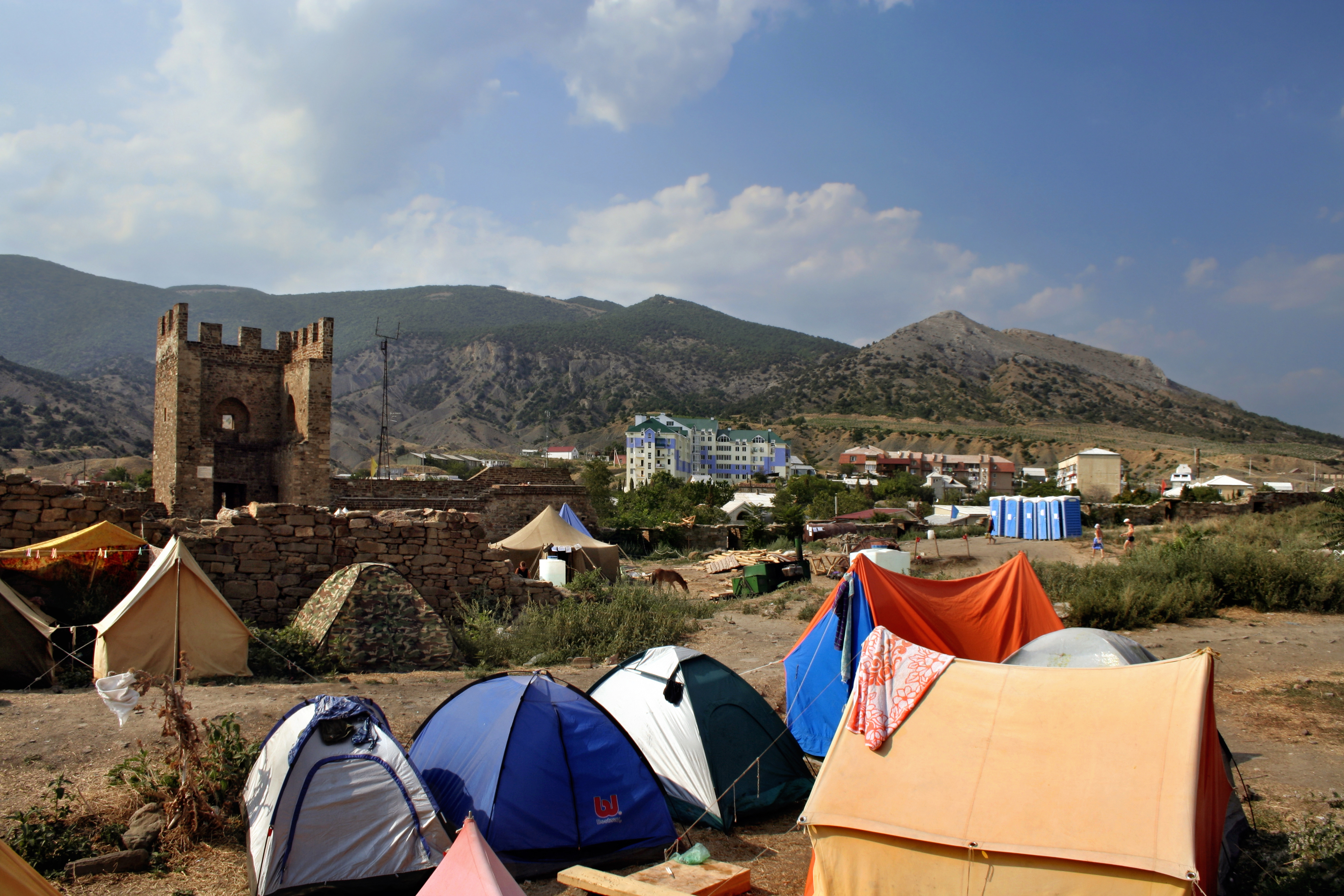 Genova fortress in Sudak. Crimea, RussiaEesti: Telkimine Genua kindluses.Krimm